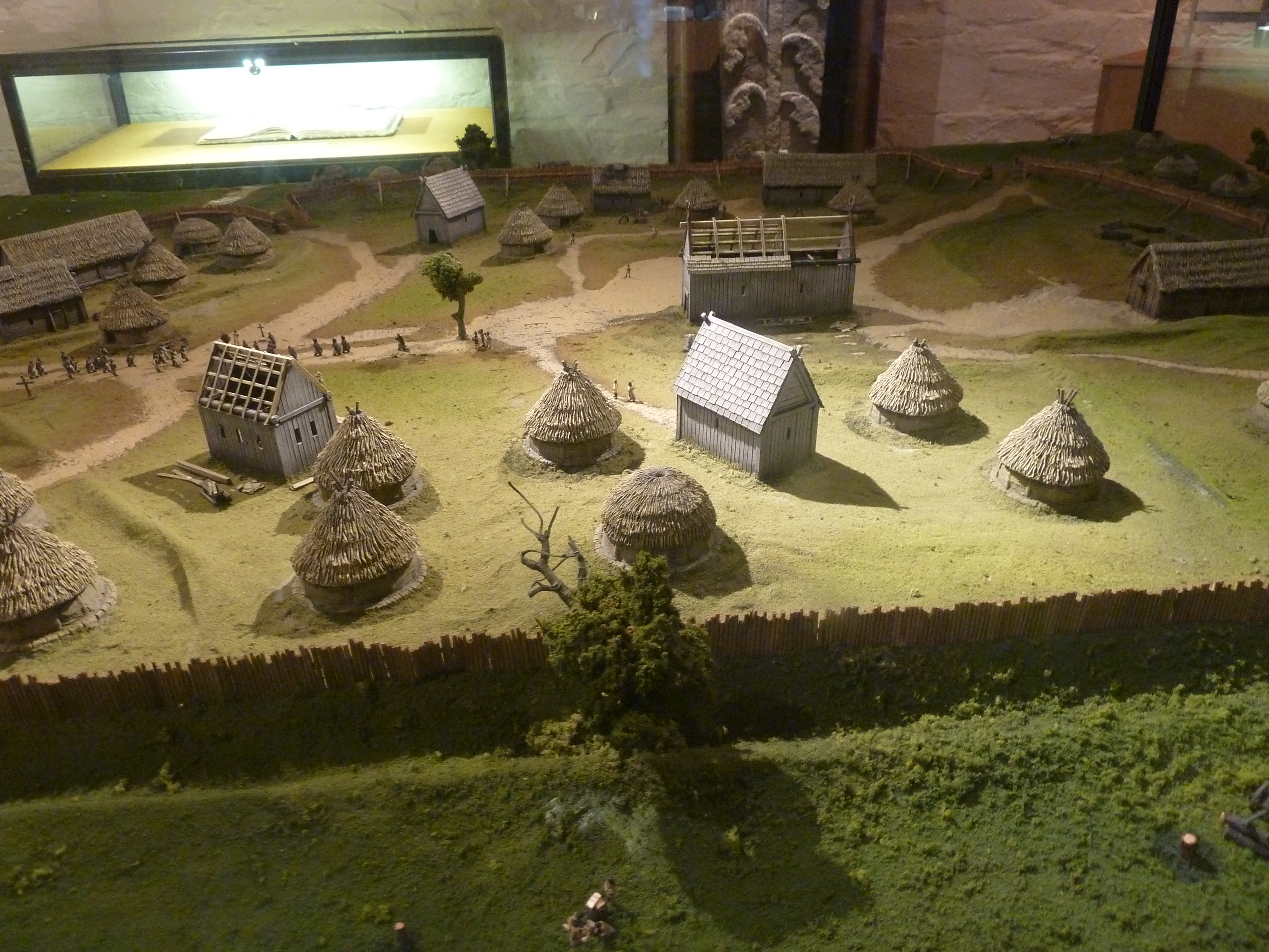 Bangor Abbey, Bangor, Co. Down, Ireland. A.D. 688 see text File:BangorAbbeyAD688text.JPG